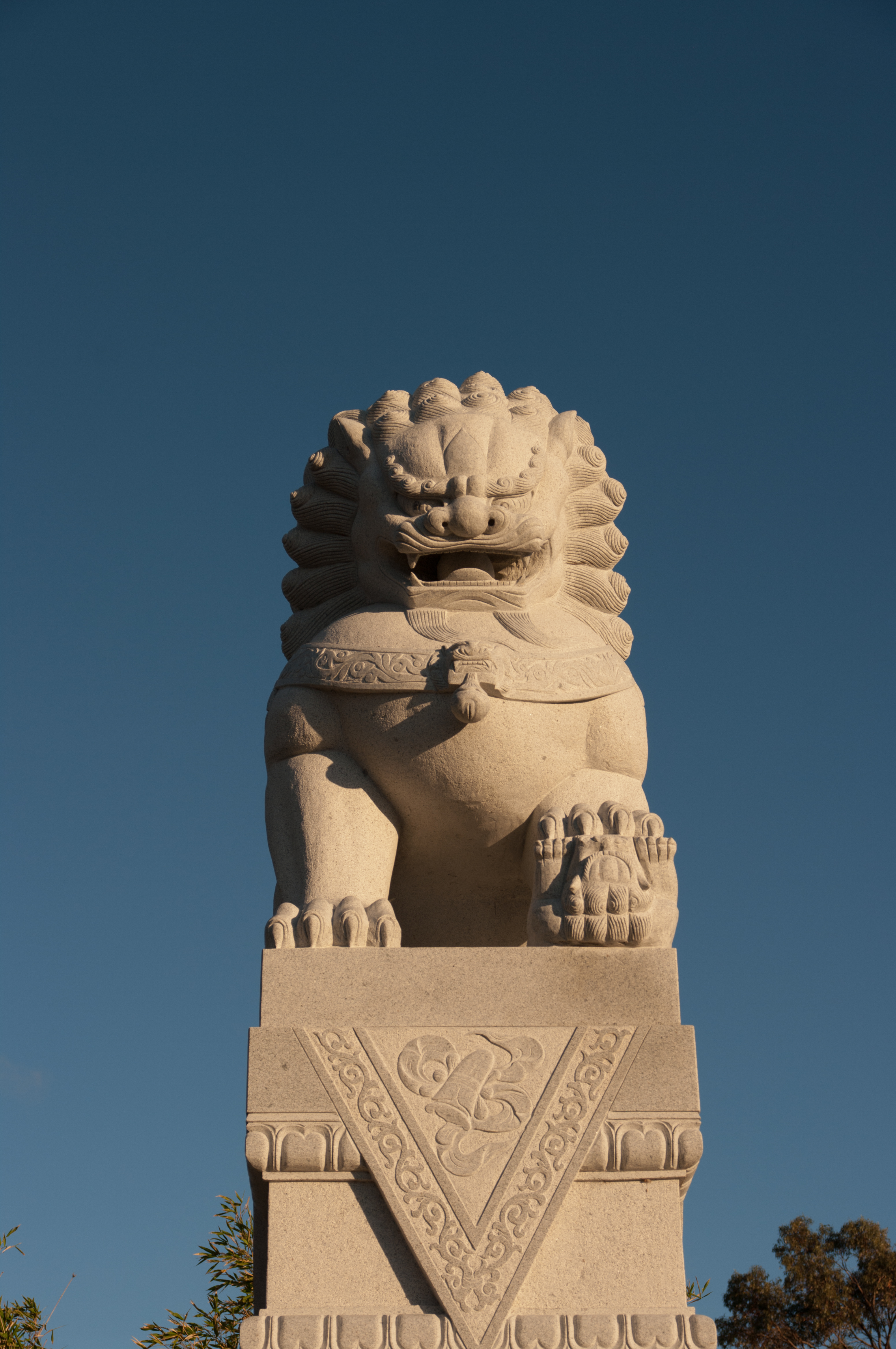 Spearwood avenue, Spearwood roadside monument for City of Cockburn's sister city relationship with YueYang China